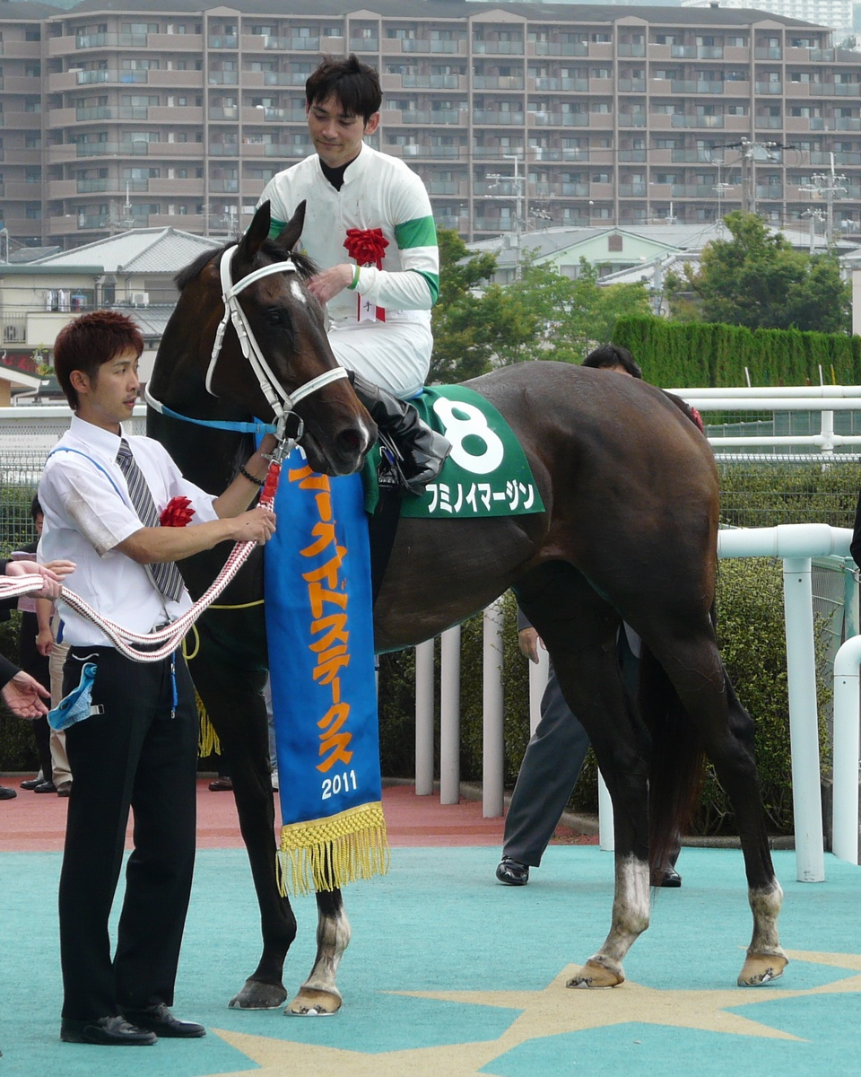 Fumino-imagine20110619